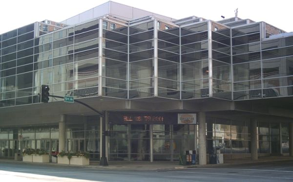 The Polk County Convention Complex in Des Moines, Iowa, is operated as part of the Iowa Events Center.